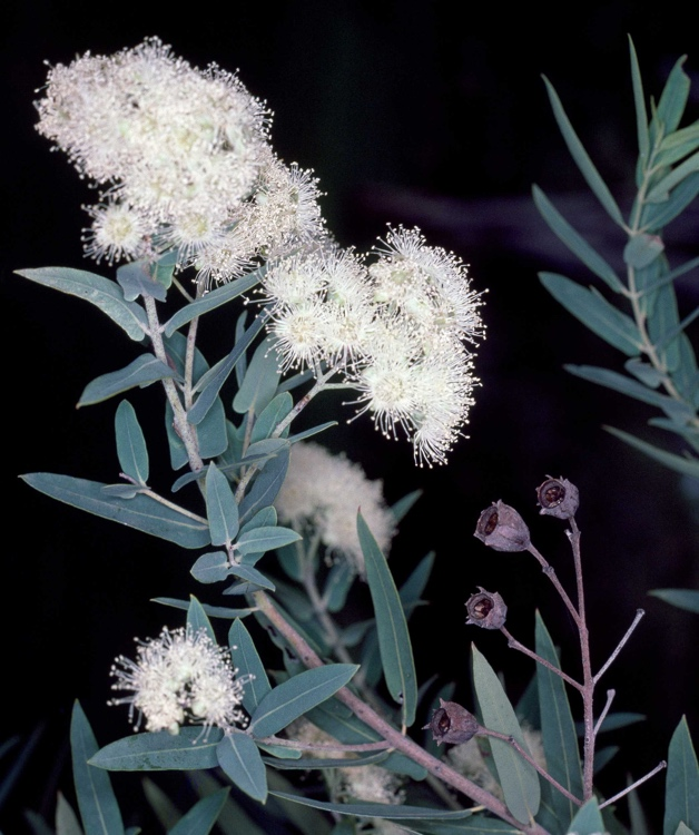 Angophora melanoxylon foliage, fruit and flowers in the Australian National Botanic Gardens, A.C.T.